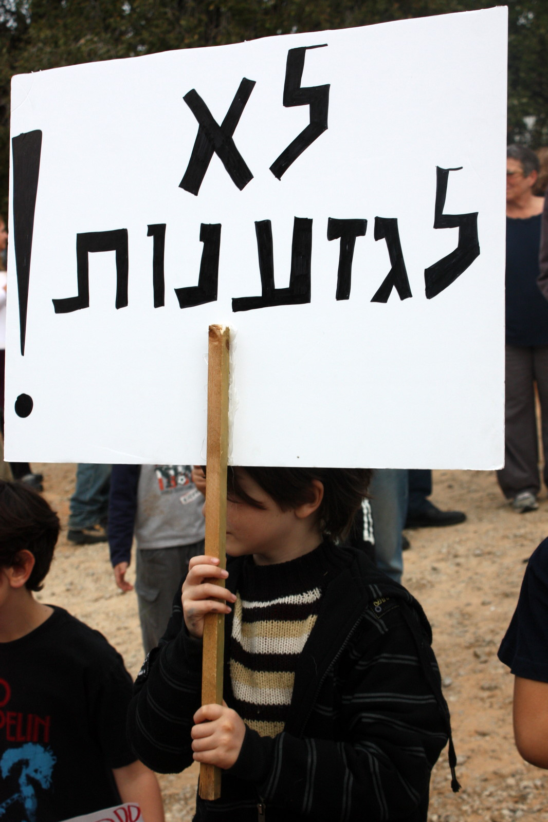 Pardes Hanna Against Racism, Law of Israel